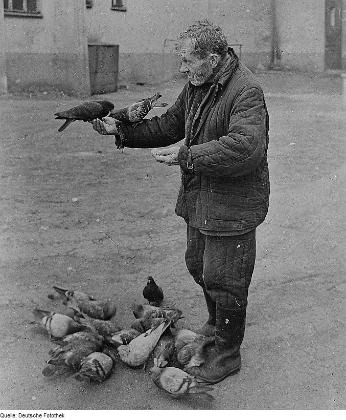 Original image description from the Deutsche Fotothek Wroclaw. Mann mit Tauben